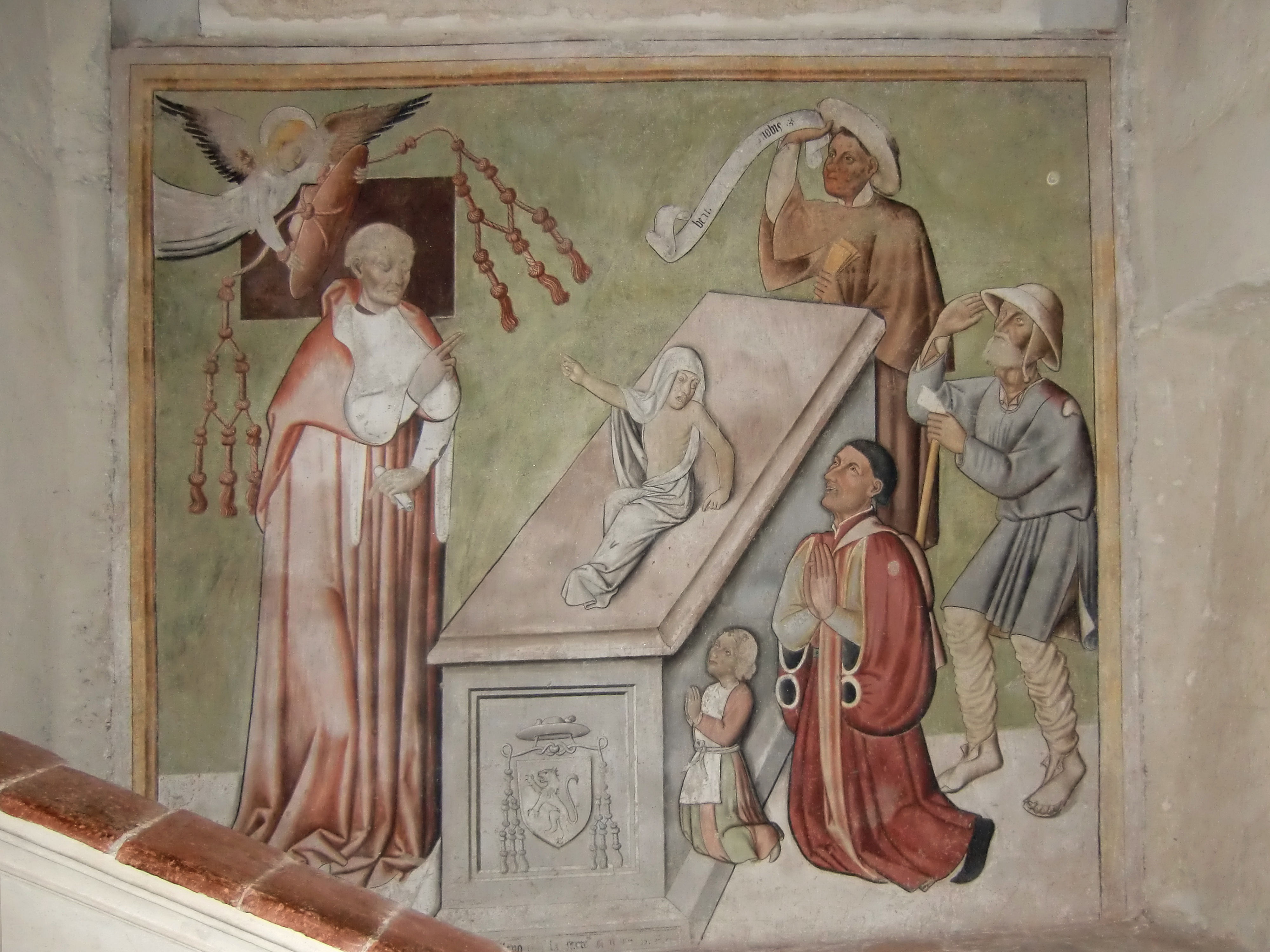 Unknown painter of the second half of XV century, Miracle of a resurrection accomplished by Blessed Peter of Luxembourg, fresco. Ivrea Cathedral, in Piedmont.